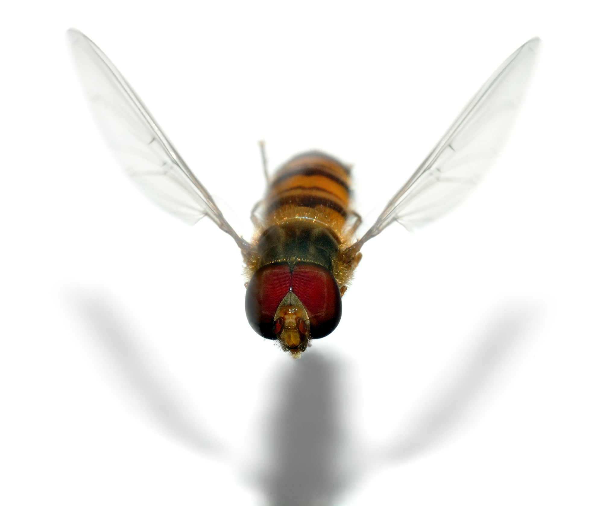 This image shows a flying 12 mm large hoverfly called marmelade fly (Episyrphus balteatus). The background is a white balustrade. The fly has not been harmed while making these photos.